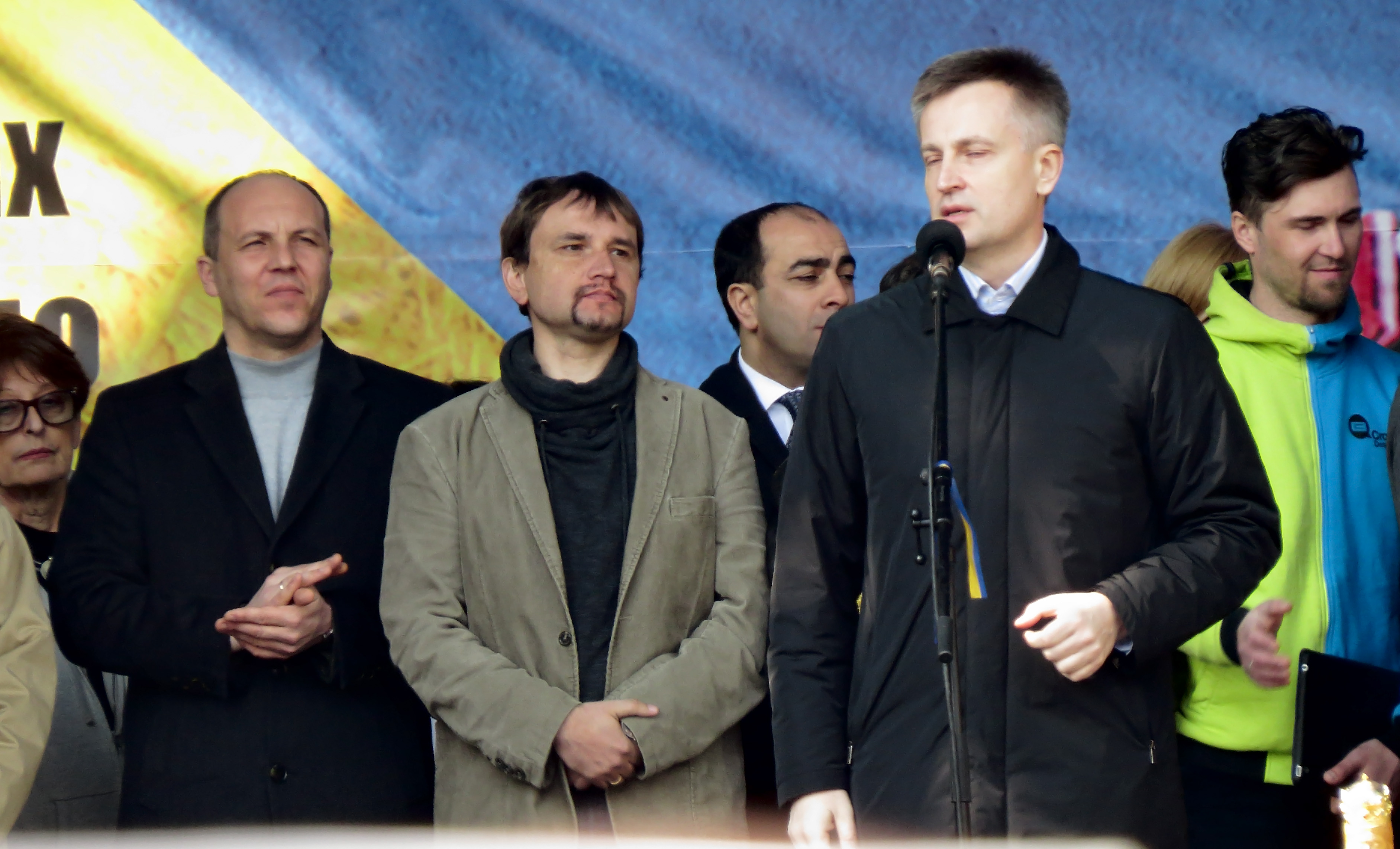 Kiev, Maidan Nezalezhnosti. Meeting on 23 march 2014